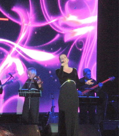 Candan Erçetin live concert performans picture, 21 June 2012.